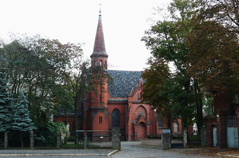 Church in Zagorze - Poznan.